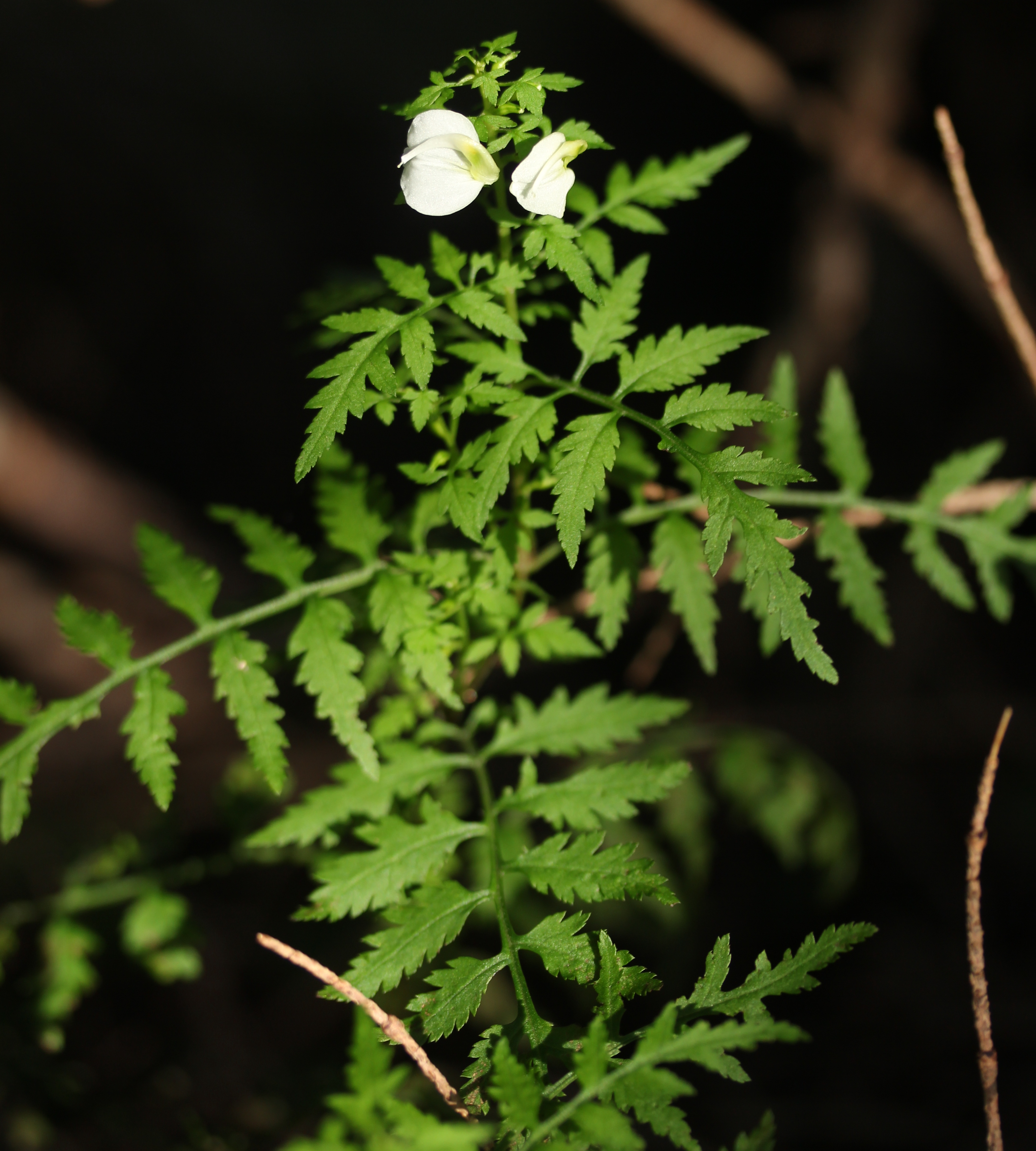 Pedicularis keiskei in Mount Kisokoma, Kiso Mountains, Kiso Town, Nagano Prefecture, Japan.